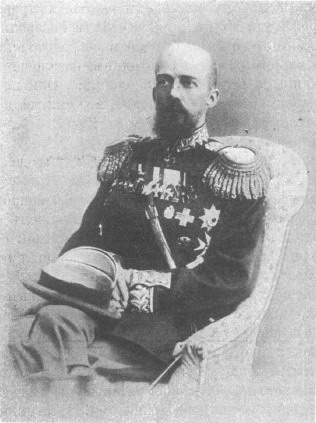 Shuvalov, Graf Pavel Petrovich (1859).